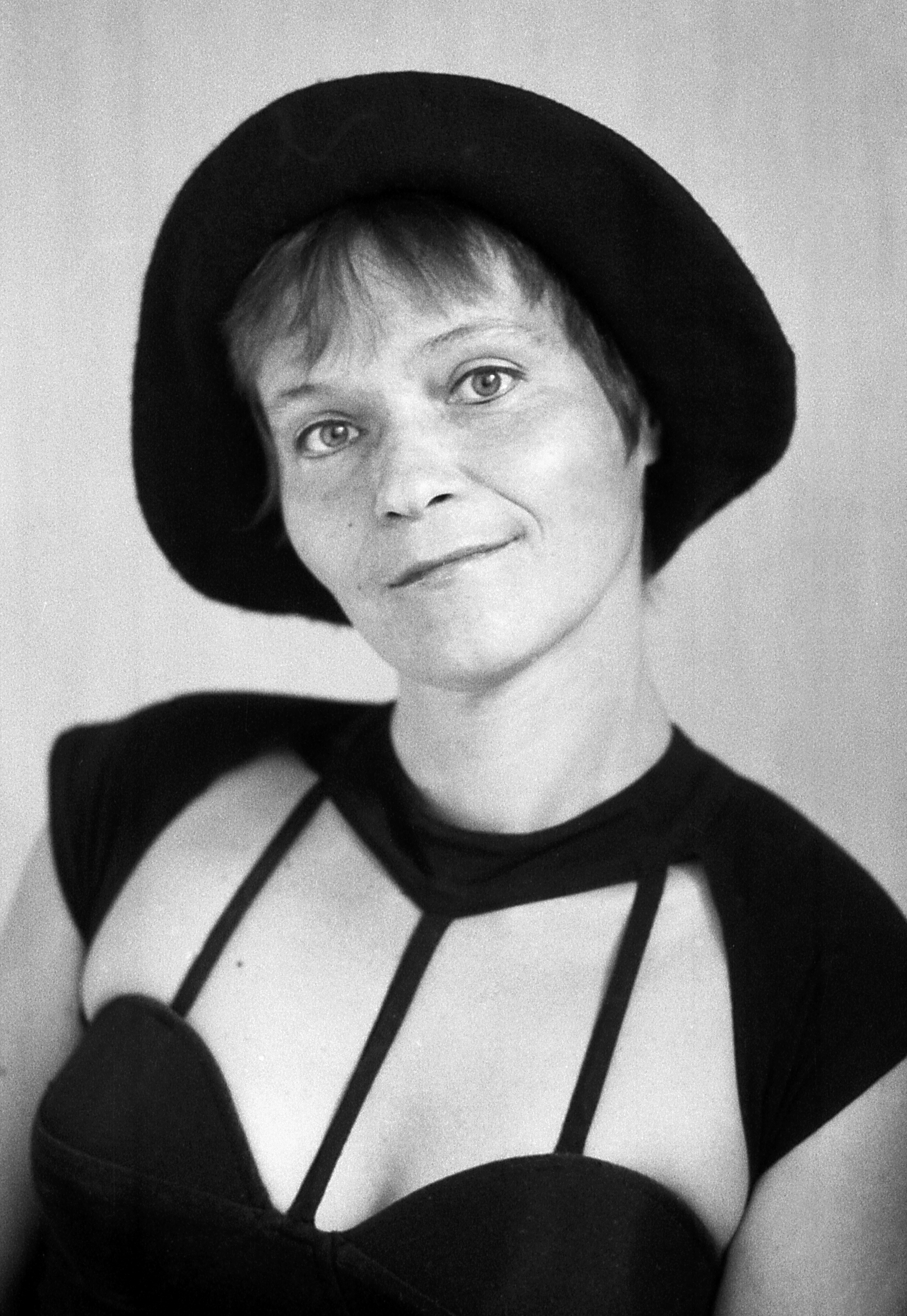 Agnes Rapai hungarian poet, writer and translator.